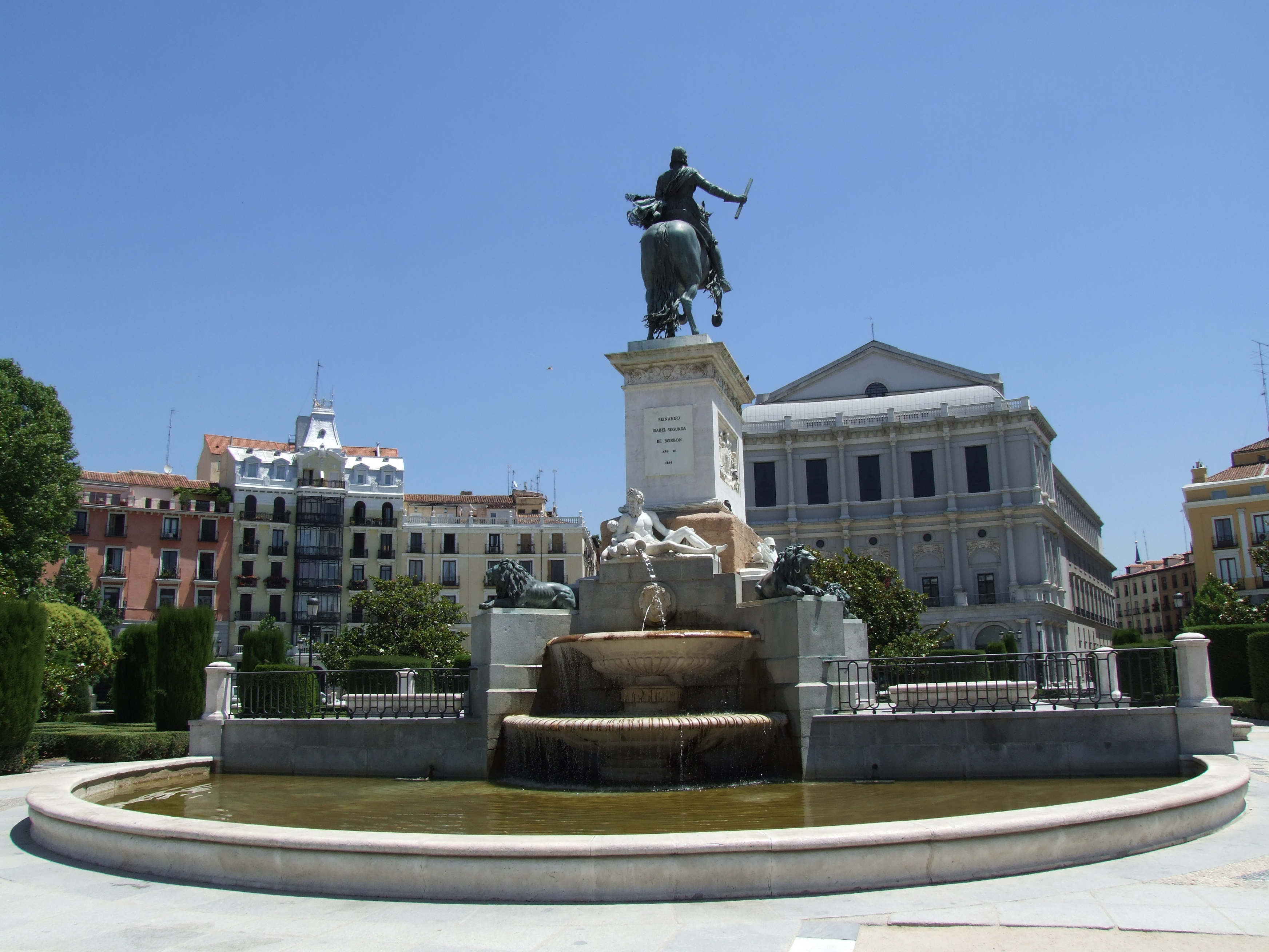 Rear view of the Monument to Philip IV of Spain at the Plaza de Oriente (square) in Madrid (Spain). Inaugurated in 1843. In the background, the Teatro Real (opera house and concert hall).